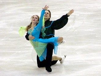 Jessica Huot & Juha Valkama at the 2003 NHK Trophy.